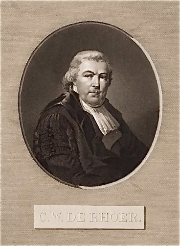 Cornelis Willem de Rhoer (1751-1821) Netherlands Historian and Jurist